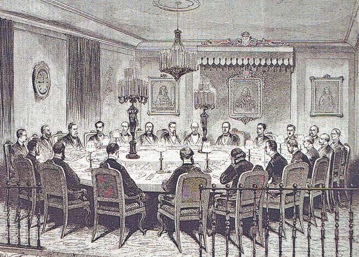 Session of the Real Academia Española in 1872